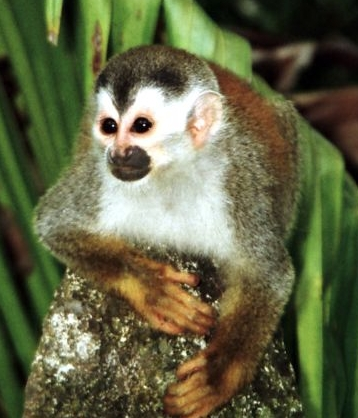 Central American Squirrel Monkey (Saimiri oerstedii) at Manuel Antonio National Park, Costa Rica